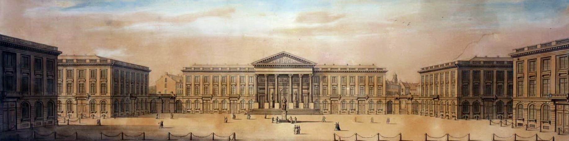 Place Royale depicted by François Lorent in 1778 (Museum of the City of Brussels, inv. L-1900-60)